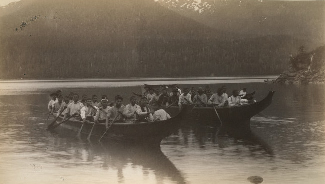 Title: The Thlinket(Tlingit) Indian. Creator: Partridge Photo. Date: 1887 Place: Alaska Part Of: Partridge's Alaska photographs Physical Description: 1 photographic print: 11 x 19 cm. on 14 x 22 cm. mount File: ag1982_0092_21_thlinket_sm_opt.jpg Rights: Please cite Southern Methodist University, Central University Libraries, DeGolyer Library when using this image file. A high-quality version of this file may be obtained for a fee by contacting . For more information, see: View U.S. West: Photographs, Manuscripts, and Imprints